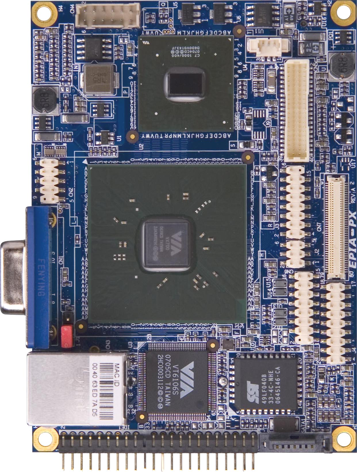 VIA EPIA PX-Series Pico-ITX board.VIA EPIA PX-Series Pico-ITX board image (top)